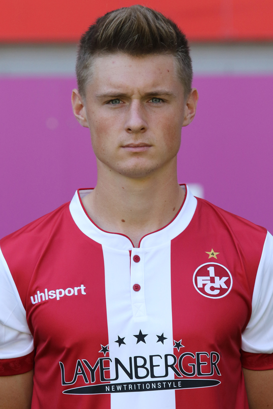 Carlo Sickinger (Nr. 25)